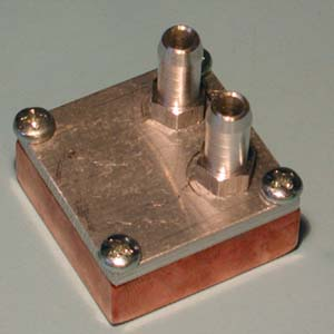 A waterblock block or water used for cooling integrated computer.